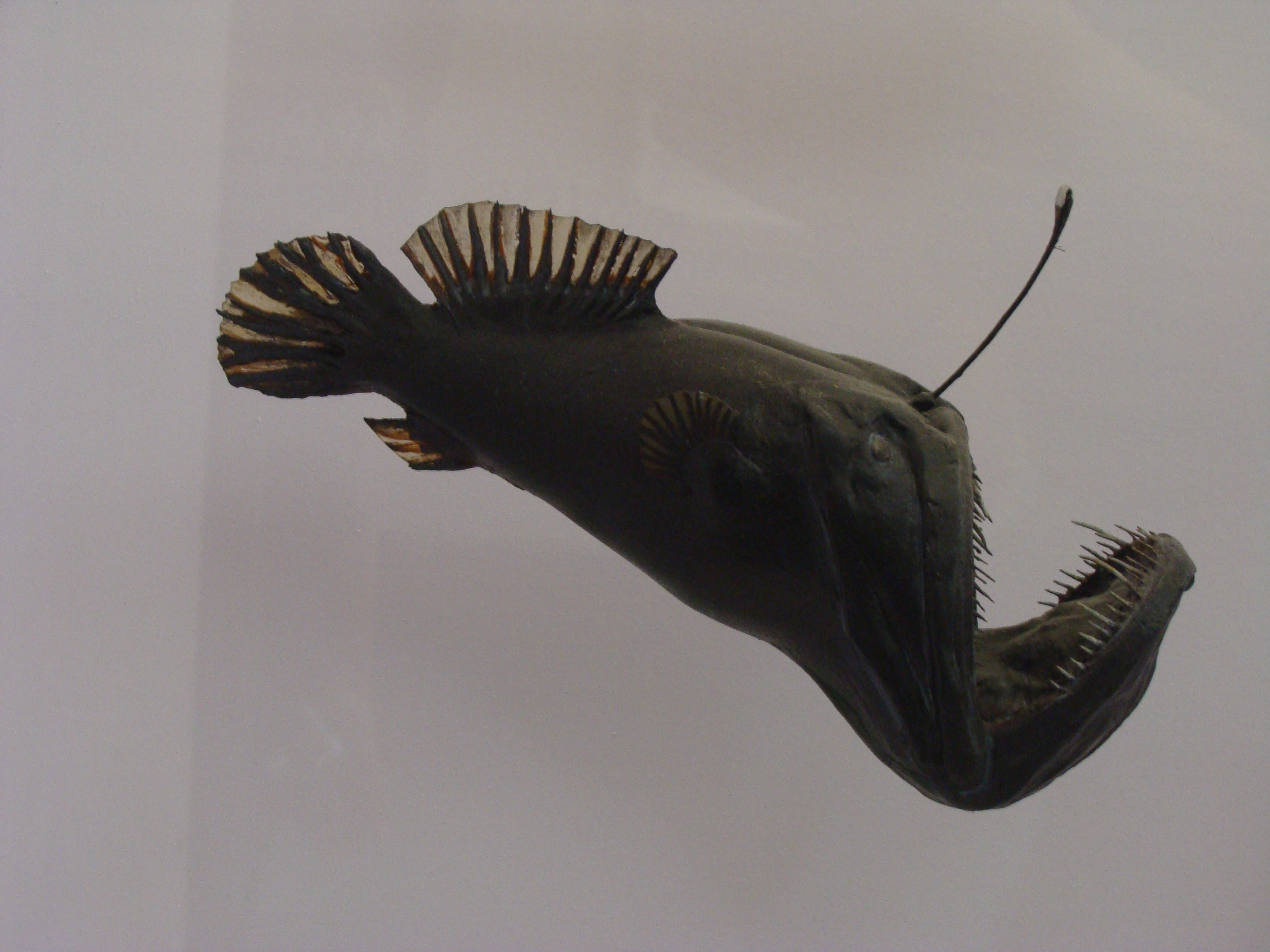 Melanocetus johnsonii (Black seadevil) in the Natural History Museum of London